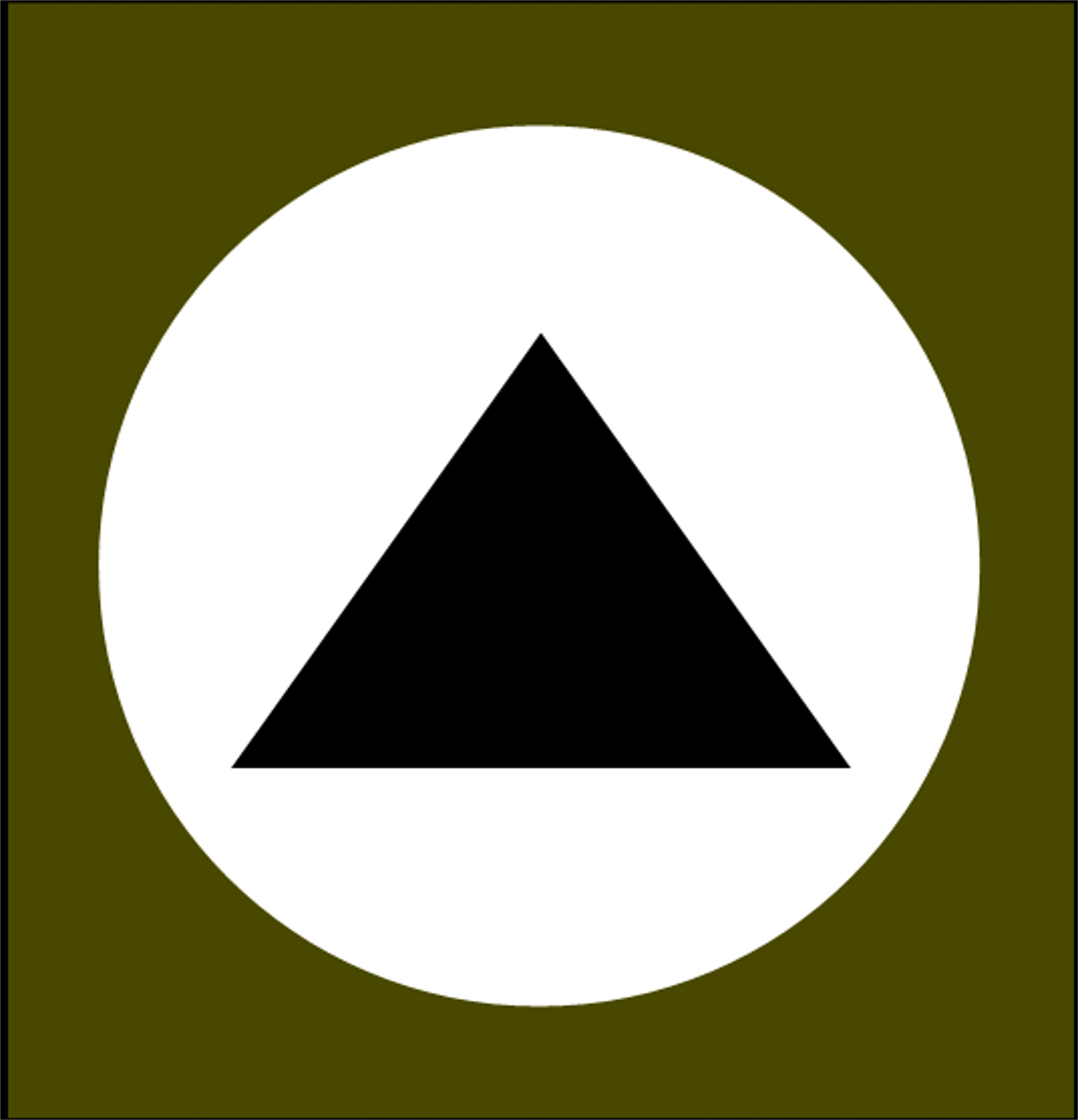 Ensign of the German 7th Army from 1944